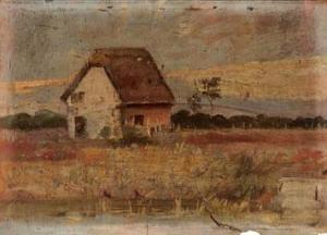 Oil on board : Il capanno di Garibaldi